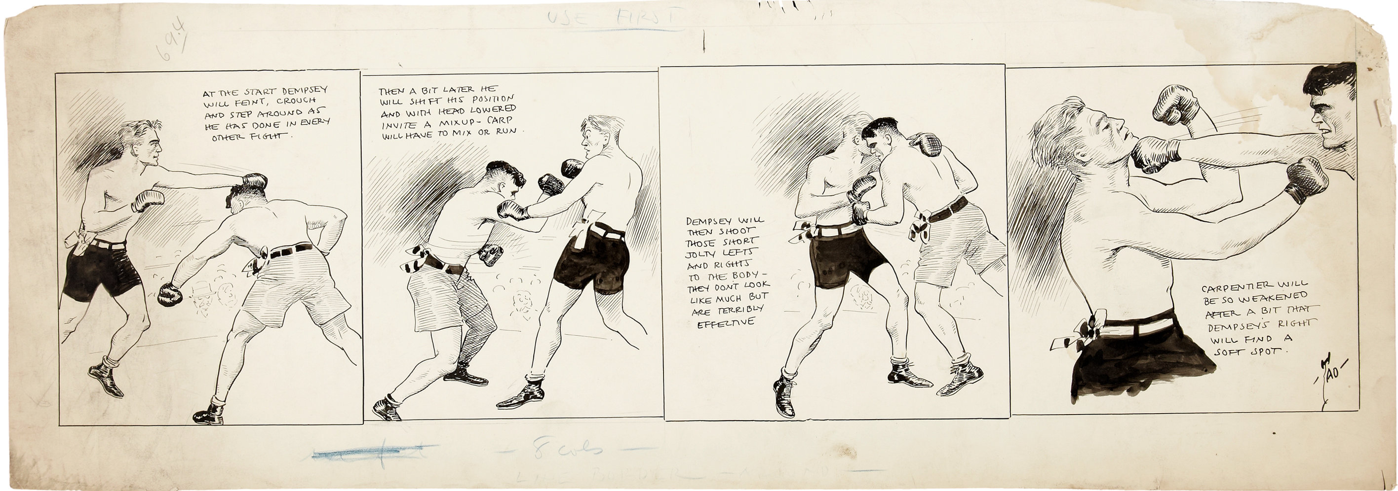 In this 1921 cartoon, Tad Dorgan speculates as to the precise events of the then-upcoming boxing match between Jack Dempsey and Georges Carpentier.